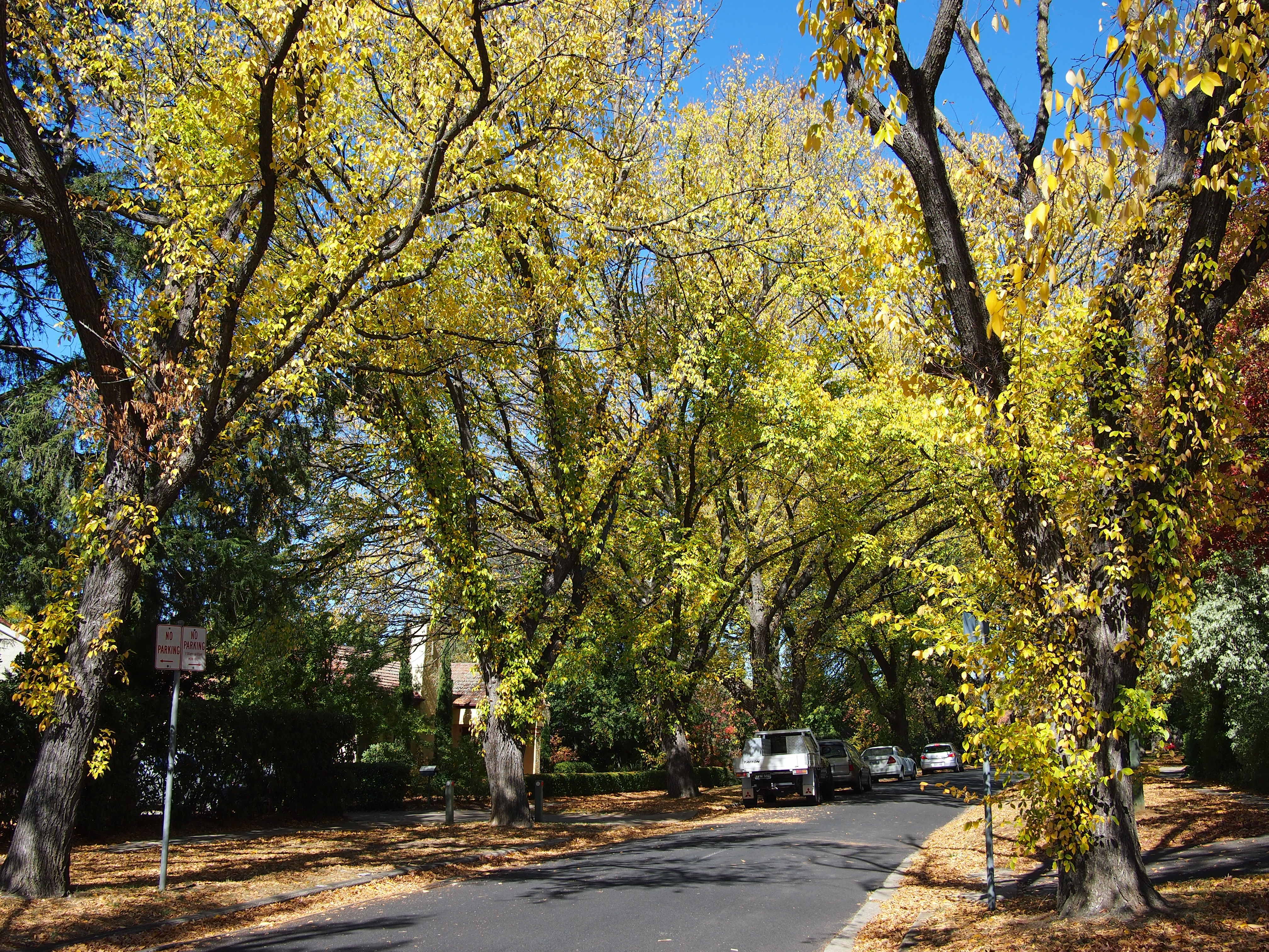 Grant Crescent in Griffith during autumn